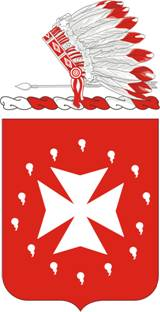 14TH FIELD ARTILLERY REGIMENT Coat of Arms, Description/Blazon Shield Gules a broad armed Maltese cross with slightly reentrant ends Argent within fourteen gouttes d'eau reversed arranged in the outline of peyote (one of the cactus family, in outline approximating a circle). Crest On a wreath of the colors, Argent and Gules, an American Indian war bonnet Gules and Argent over Satanta's arrow of the last. Motto EX HOC SIGNO VICTORIA. Symbolism Shield Scarlet (red) is a color traditionally associated with Artillery units. The cross, a heraldic device, and utilized by the Indians in Oklahoma, is symbolic of the morning star and is representative of the dawn of the 14th Field Artillery. The fourteen drops of water correspond to the numerical designation of the regiment. The irregular placement of the drops is to represent a dried peyote, a species of small cactus, one of the sacred emblems of the Comanche and Kiowa Indians. Crest The war bonnet pierced by the arrow of Satanta, a noted Kiowa chief of the mid-19th century, is really a spear with a feathered end and leather grip. Satanta was well known among all the Indians of the Fort Sill region. Background The coat of arms was originally approved for the 14th Field Artillery Regiment on 24 February 1921. It was amended to correct the blazon of the shield on 28 April 1923. It was redesignated for the 14th Field Artillery (Armored) Regiment on 25 October 1940. The insignia was redesignated for the 14th Armored Field Artillery Battalion on 30 March 1942. It was redesignated for the 14th Artillery Regiment on 21 November 1958. Effective 1 September 1971, it was redesignated for the 14th Field Artillery Regiment. The insignia was amended to correct the blazon of the shield and revise the symbolism on 7 November 1991.